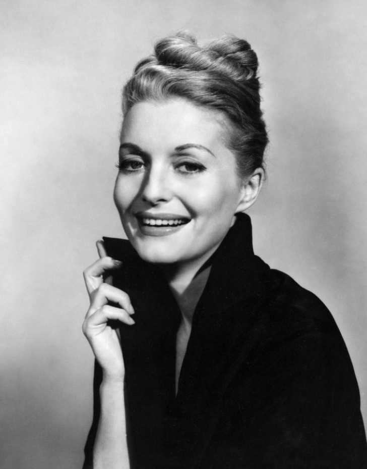 Constance Towers promotional photo, 1963